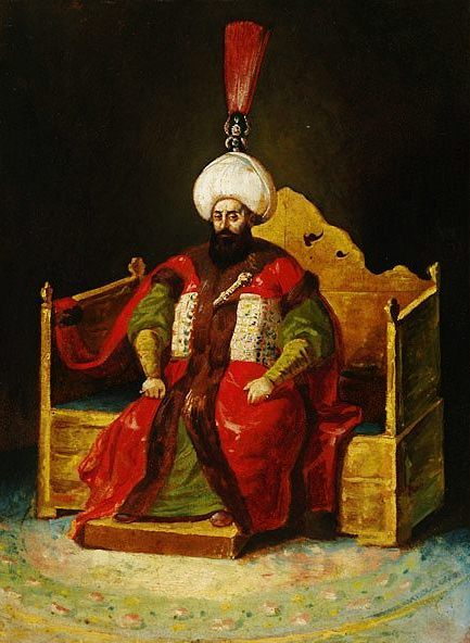 Sultan Mustafa IV